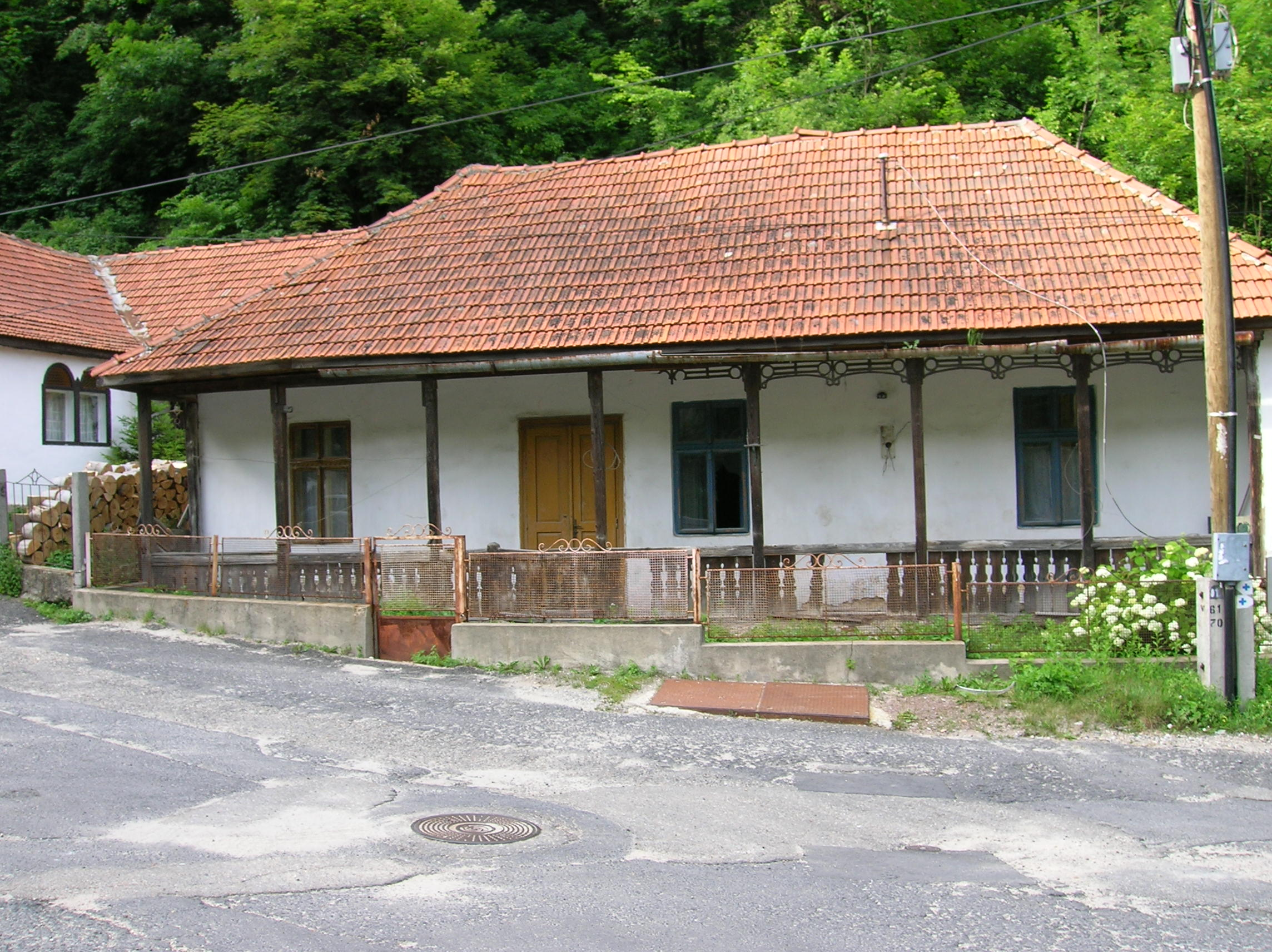 Old peasant home in Ómassa, a village annexed to Miskolc (Hungary) in 1950.